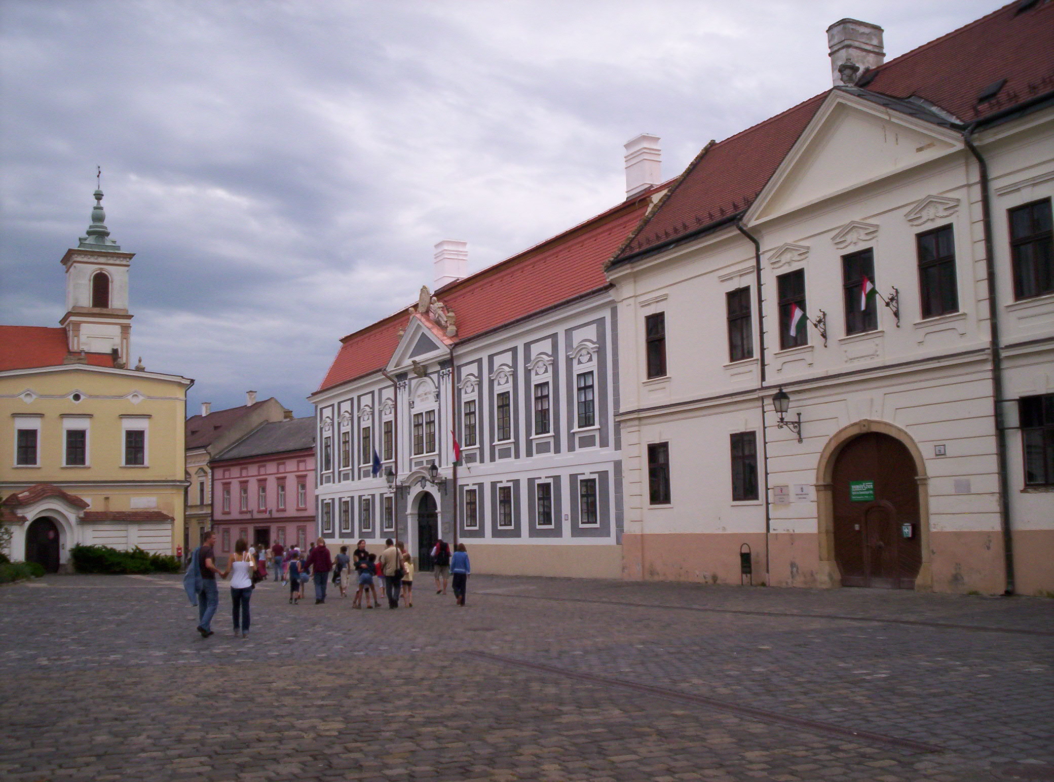 Southern and western side of Szentháromság (Holy Trinity) Square, Veszprém